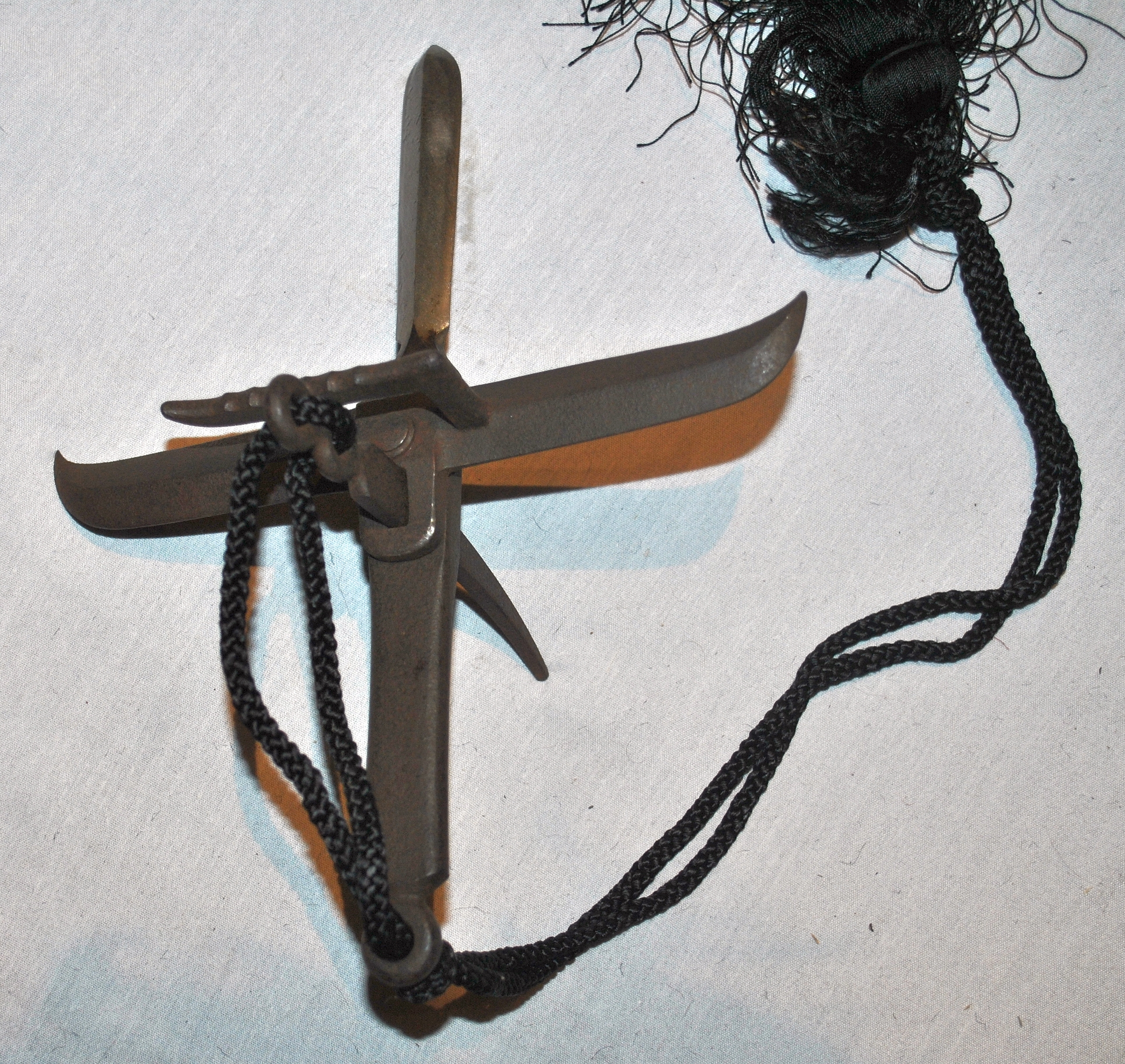 Japanese karakuri jitte, as described in Serge Mol's book "Classical Weapontry of Japan" P.36.